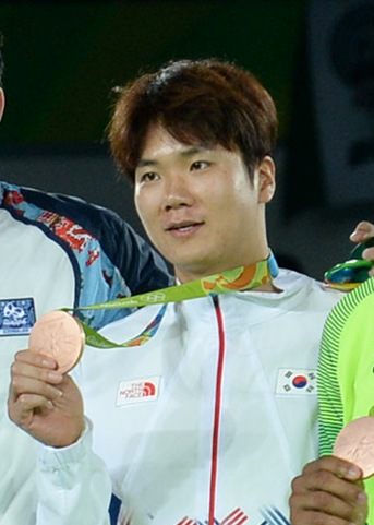 Cha Dong-min at the 2016 Summer Olympics – Men's +80 kg awarding ceremony